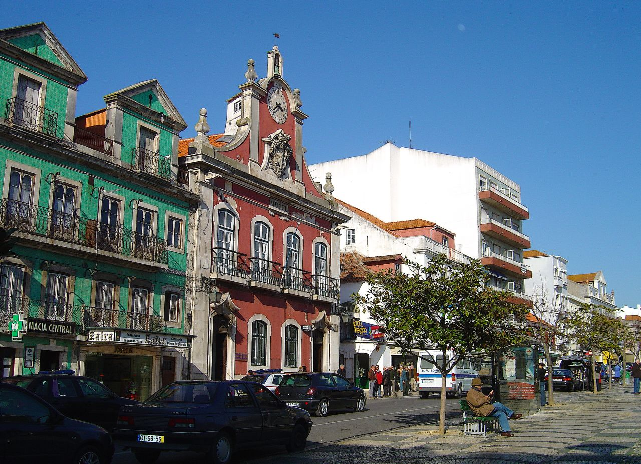 See where this picture was taken. [?]